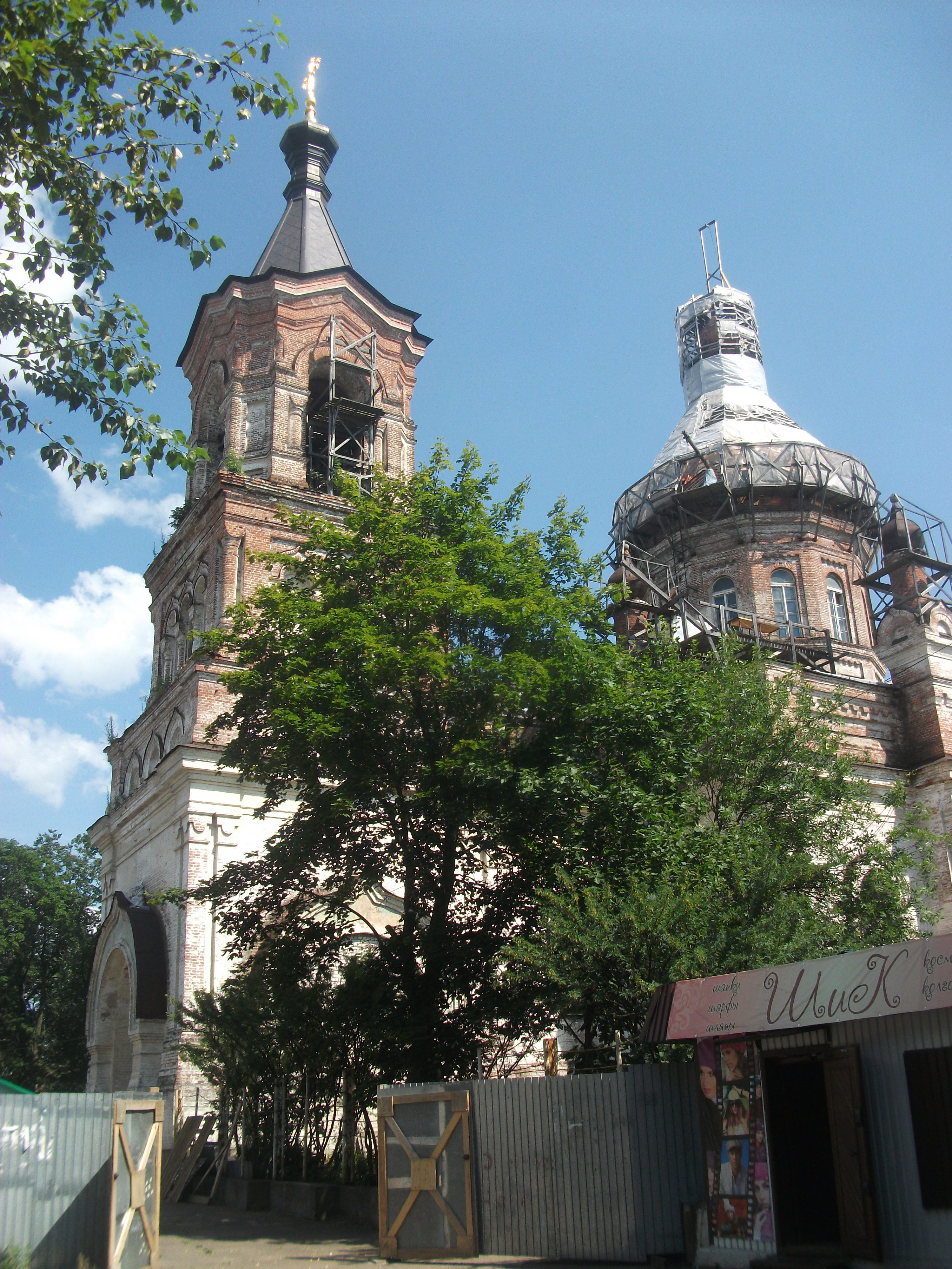 Luga, church of Resurrection